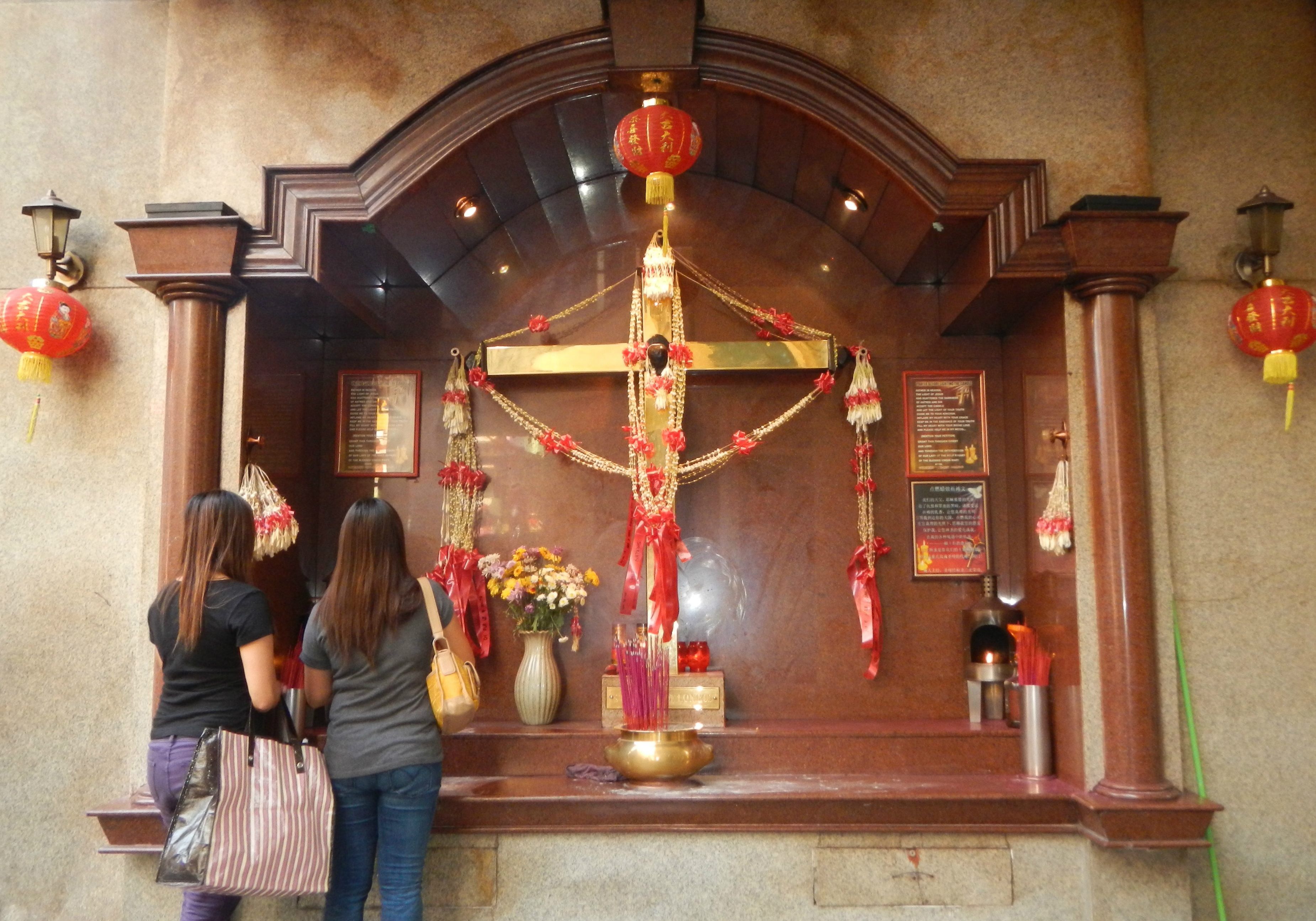 Manila Chinatown, Chinese New Year 2014